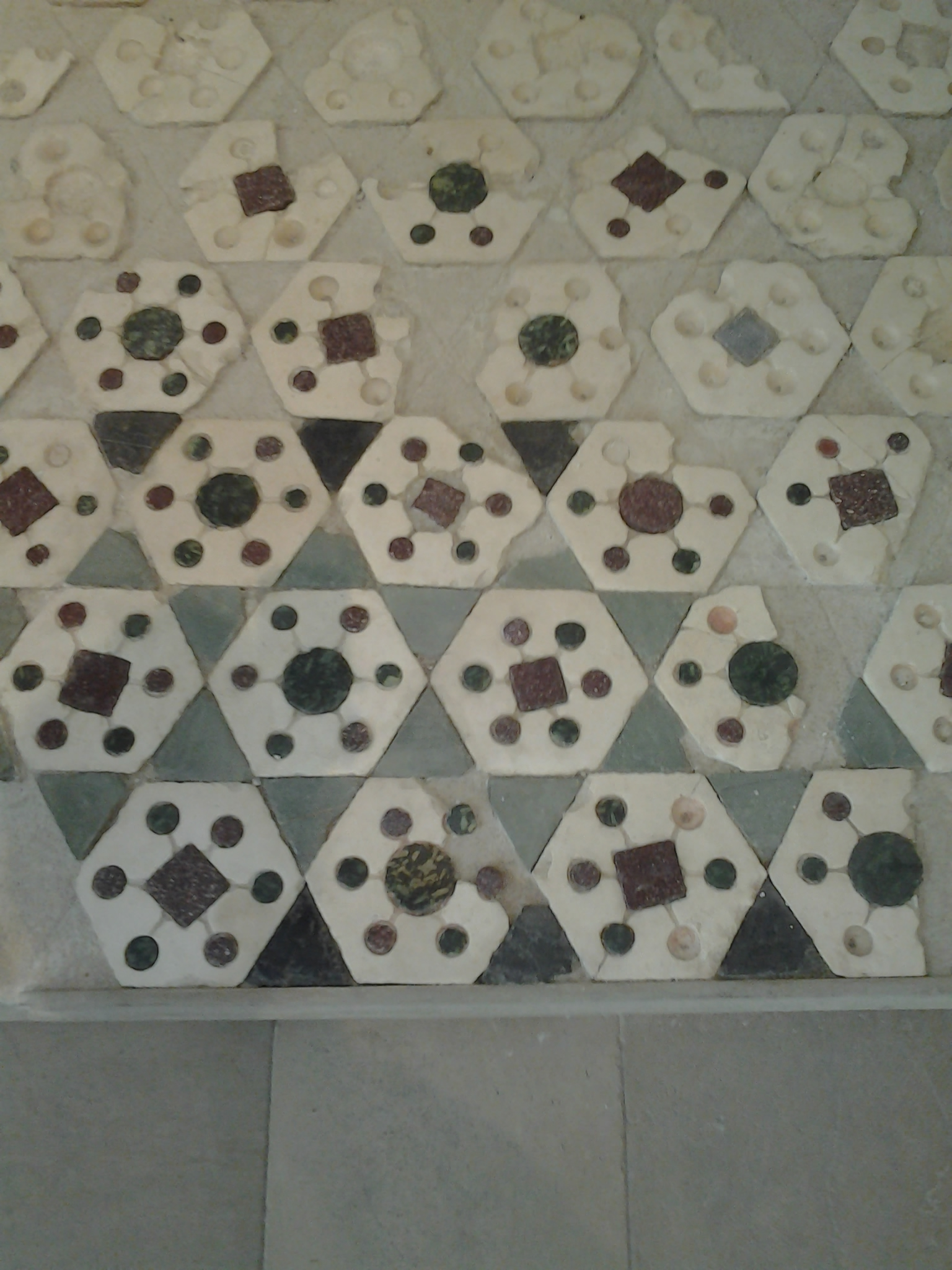 Floor in San Pietro a Corte, Salerno, Italy